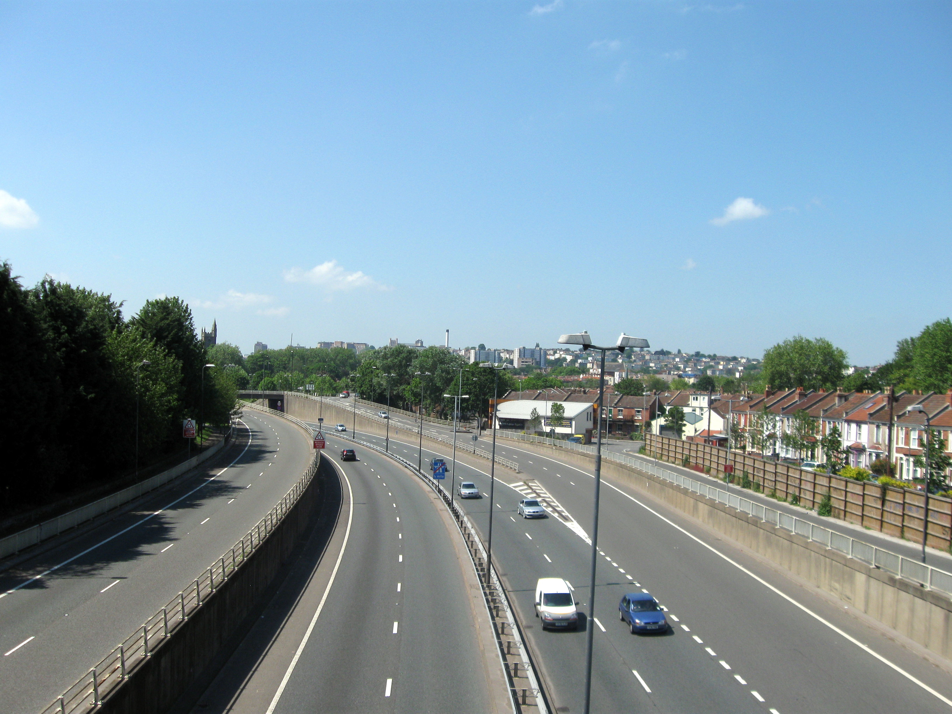 The southern end of the M32 motorway in Bristol, Gloucestershire, England, looking southbound. The area between the southbound exit for junction 3 and the point at which the M32 becomes the A4032 is shown (the sign in the middle indicates the approaching end of motorway regulations). The slip road which comes off the M32 at junction 3 and leads up to a roundabout over the road (bridge seen in the distance) can be seen on the left. On the right is the northbound entrance for junction 3, a service road, and over the fence Galton Road.